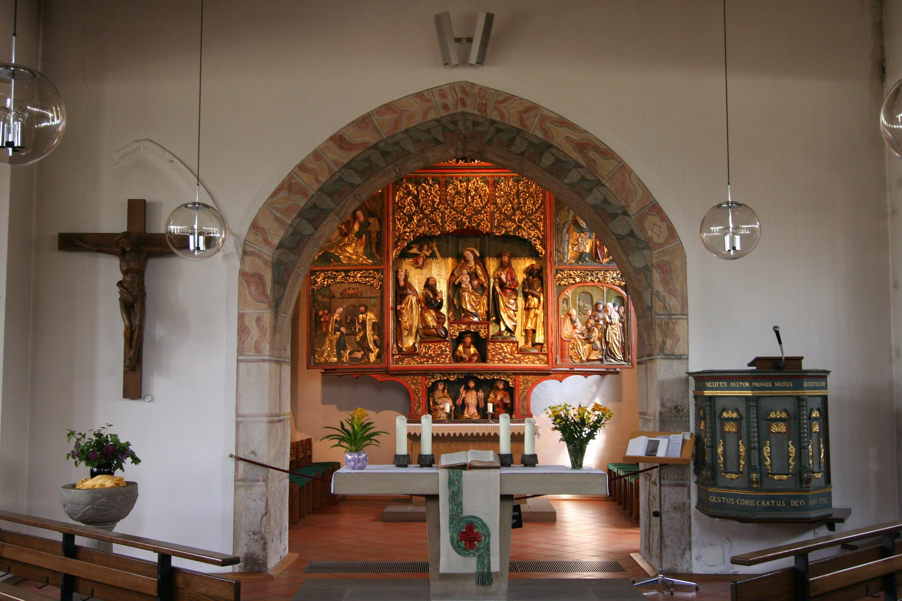 The church of the Holy Cross, Saint Peter and Genovefa in Ellhofen, Germany. View to the choir